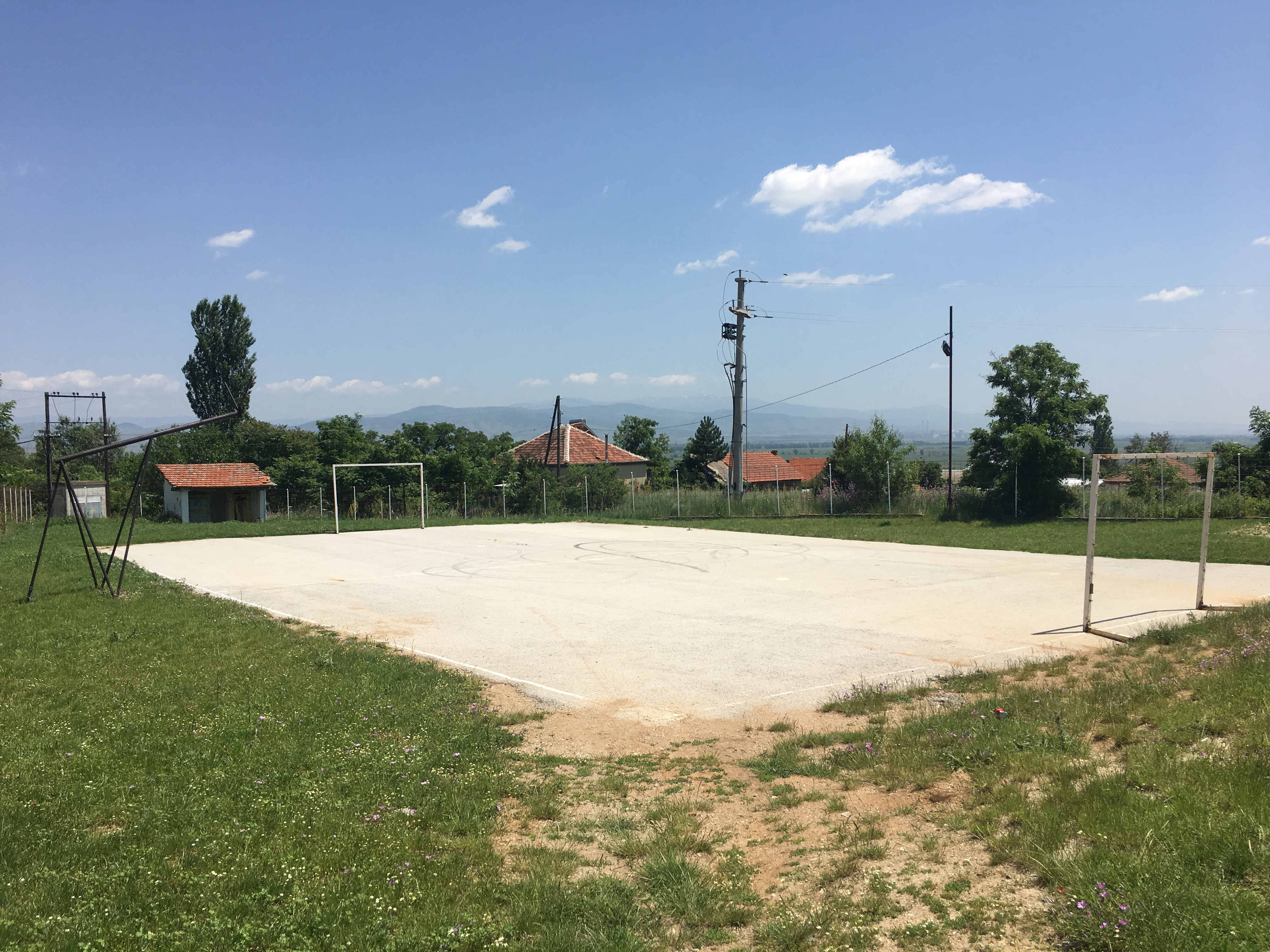 A playing ground in primary school's yard in the village of Beranci